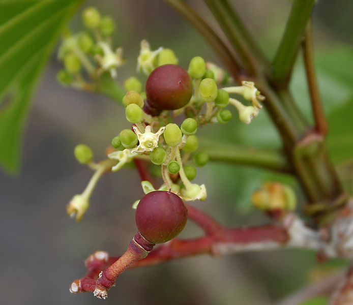 Woodrow's Grape Tree • Marathi: गिरणूळ girnul Cissus woodrowii in Keesara, Rangareddy district, Andhra Pradesh, India.